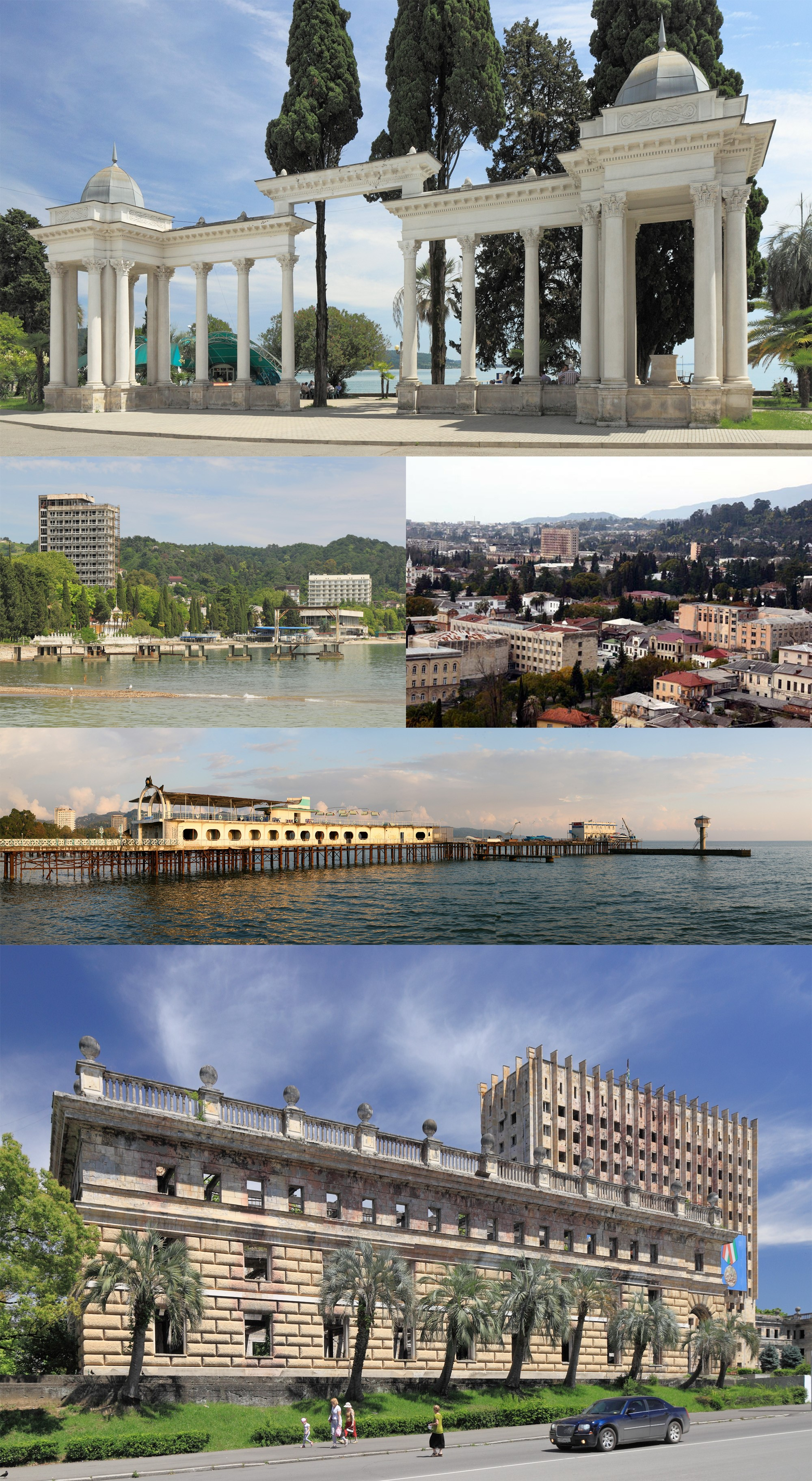 Collage of Sokhumi